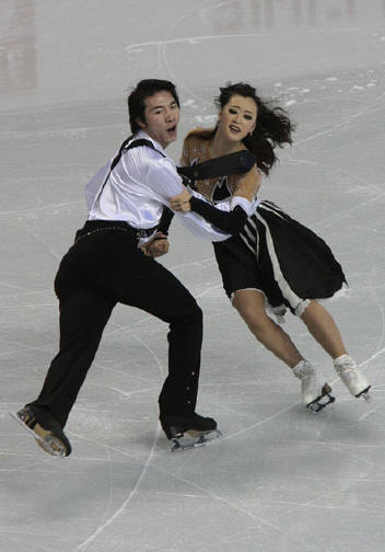 Xintong HUANG & Xun ZHENG at the 2009 Four Continents Championships.